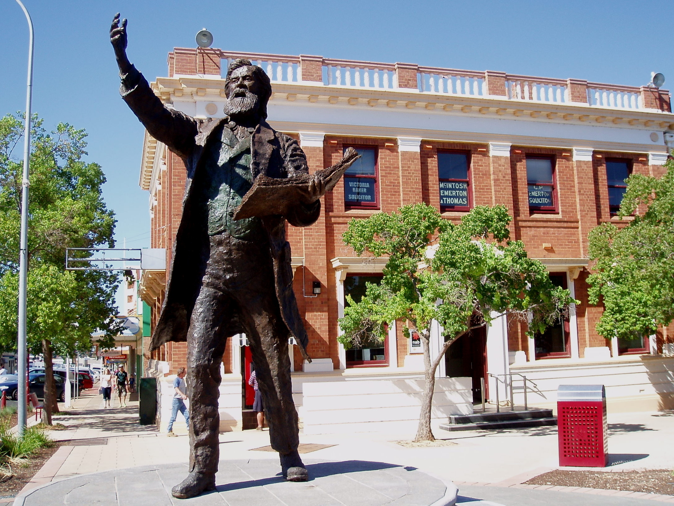 Parkes was a goldmining settlement originally named Bushman's, but following visits from New South Wales Colonial Secretary (also referred to as Prime Minister) Sir Henry Parkes on two occasions in 1873 and finally in 1893, the townspeople nominated to change the name of the town in honour of the great statesman. The anecdotal story goes that it was actually a political move from the locals who were also lobbying the then NSW Prime Minister Henry Parkes to construct the east-west rail line through Parkes, so to help sway his opinion... they named their town after him!